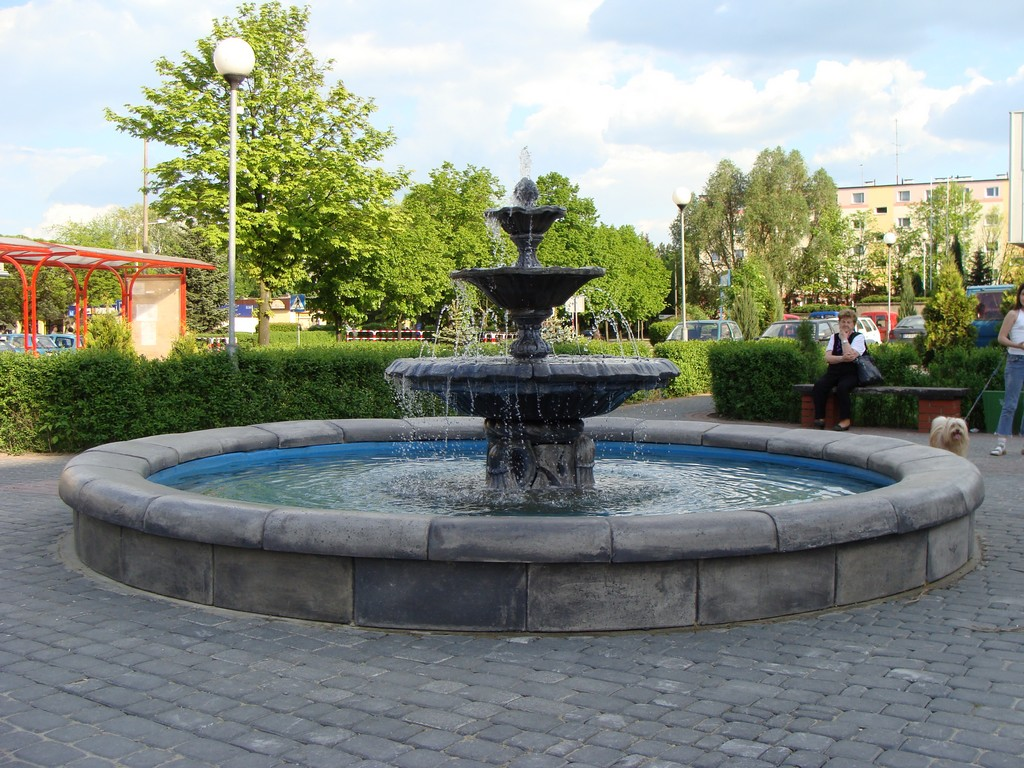 Śrem, fountain.